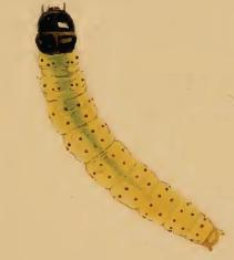 Stainton’s Natural History of the Tineina (1855–1873): Agonopterix nanatella